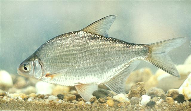 Blicca bjoerkna from Tisza river, Hungary.